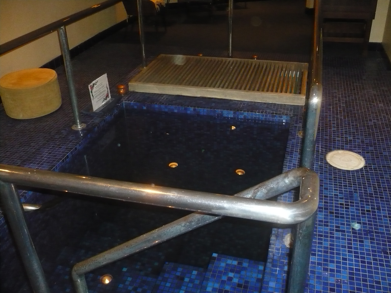 The Mikveh (ritual bath) of the American Jewish University in Los Angeles, California. Seven steps lead into the mikveh. In the back wall of the bath there is a removable notch to make a water vacuum.